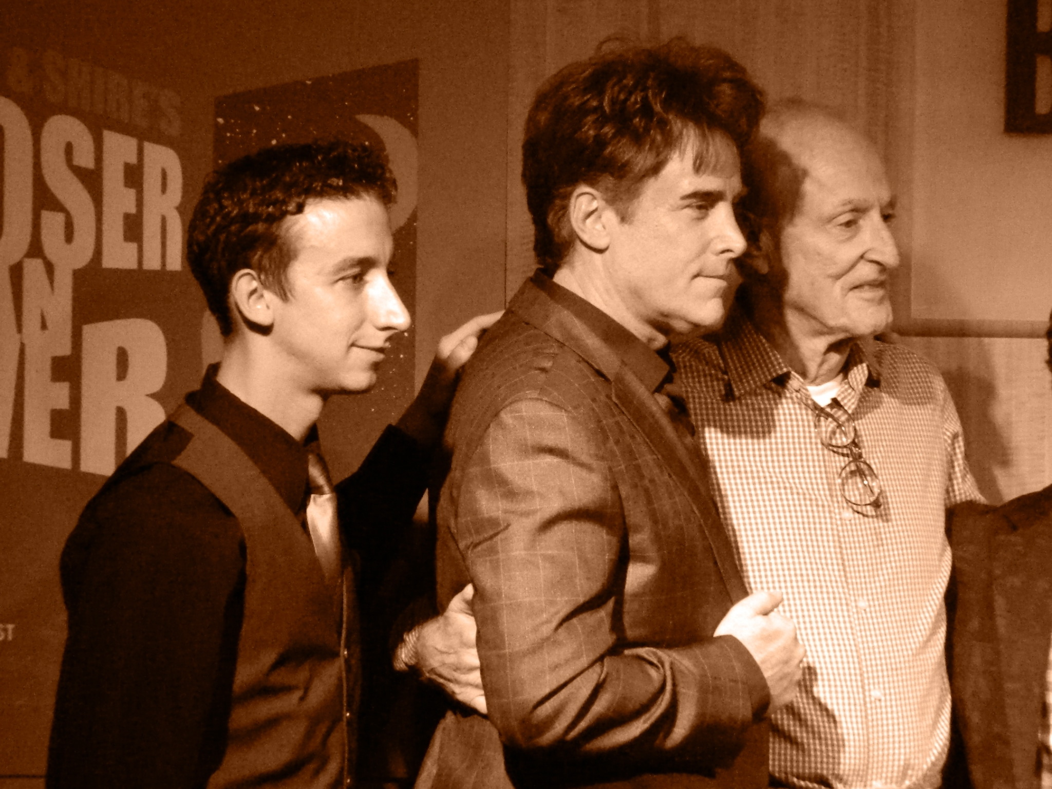 David Shire in New York, Friday evening, Sept. 20, 2013.